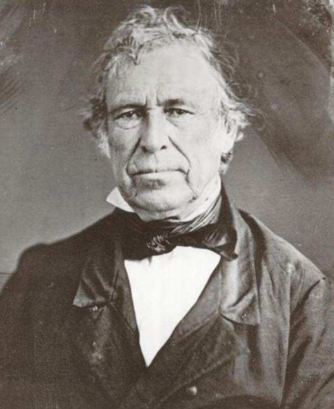 Zachary Taylor, about 1850.